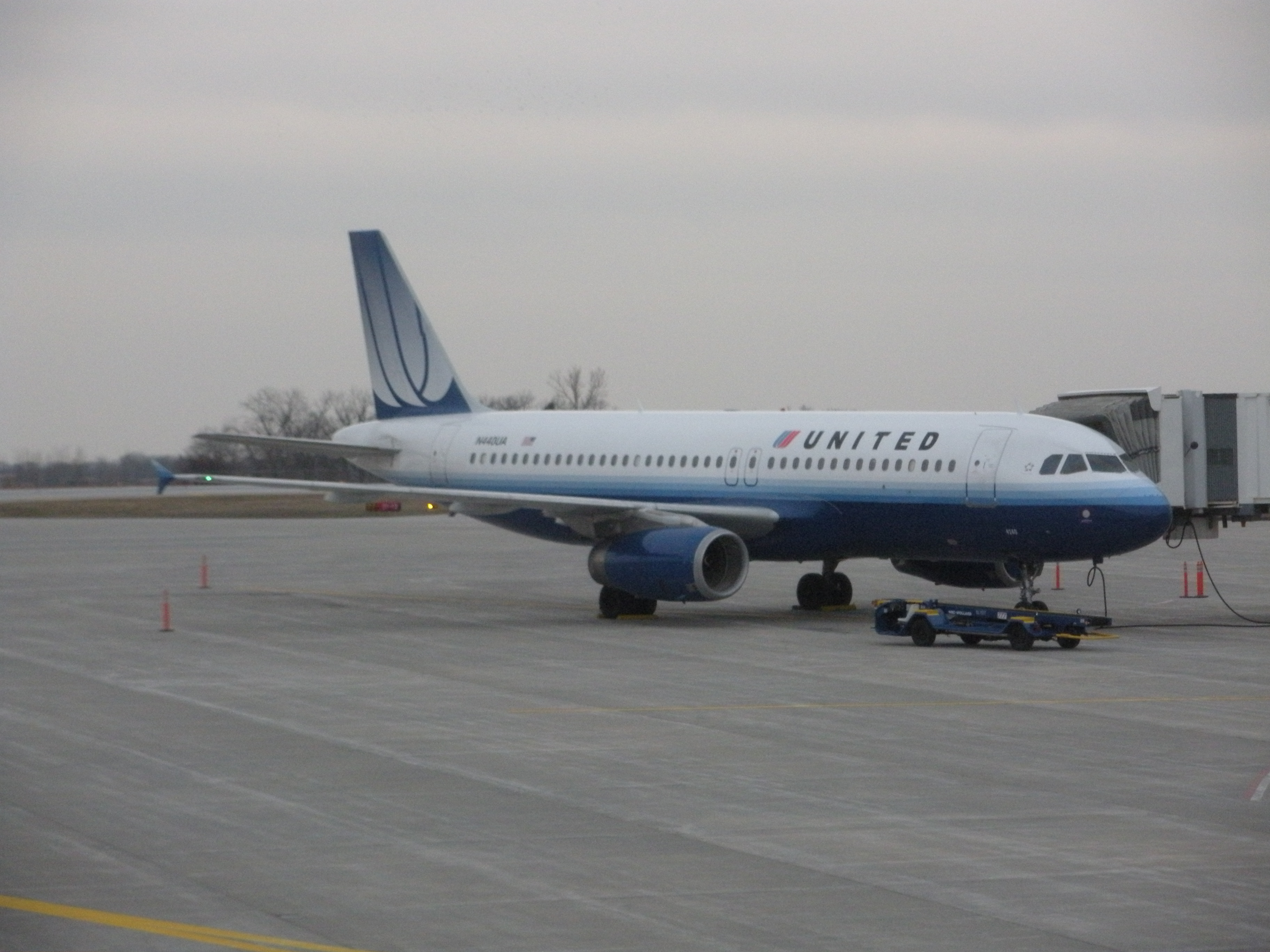 a united a320 parked at gate a4 at DSM